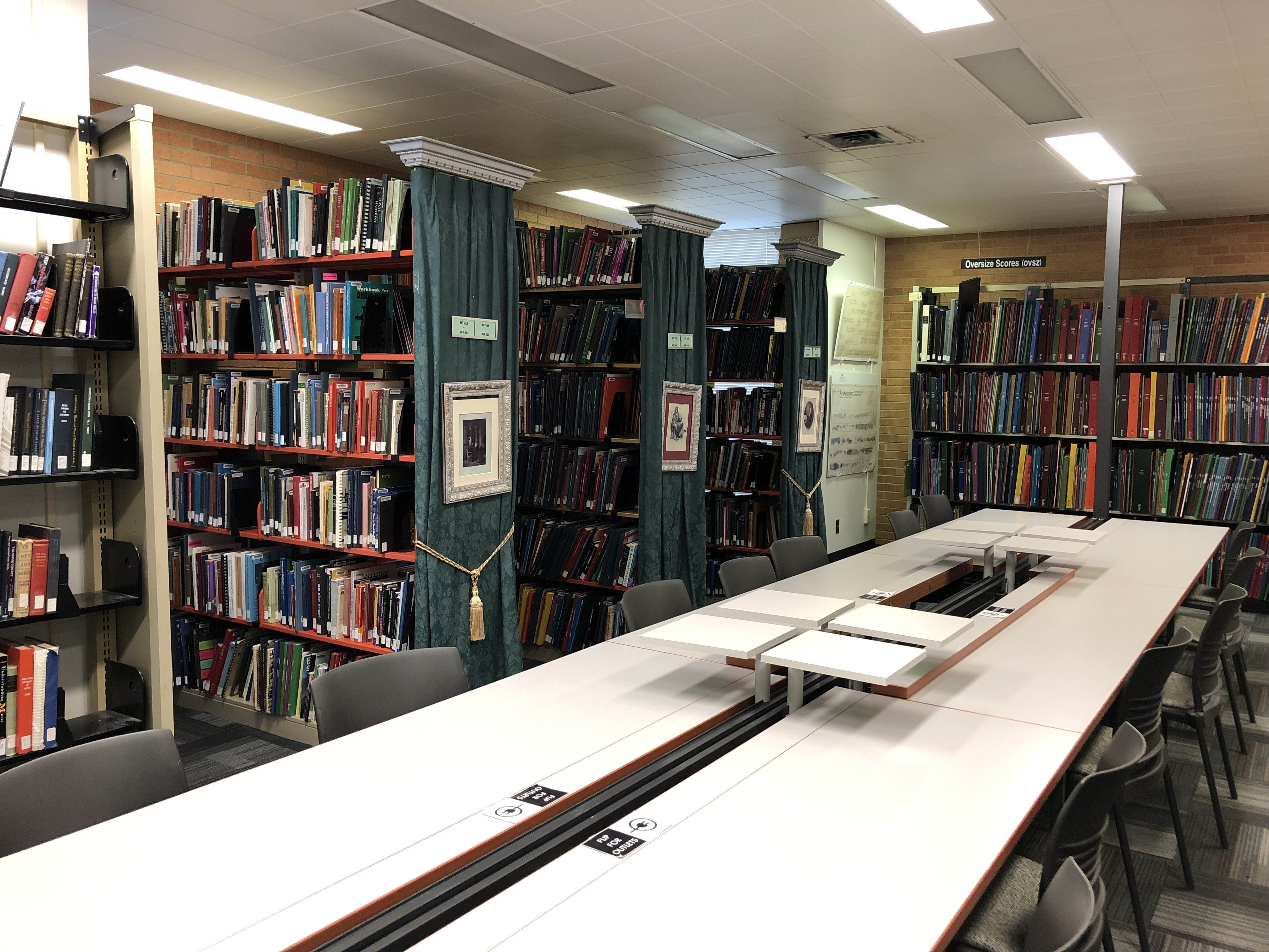 The music library on the 3rd floor of Jerome Library.